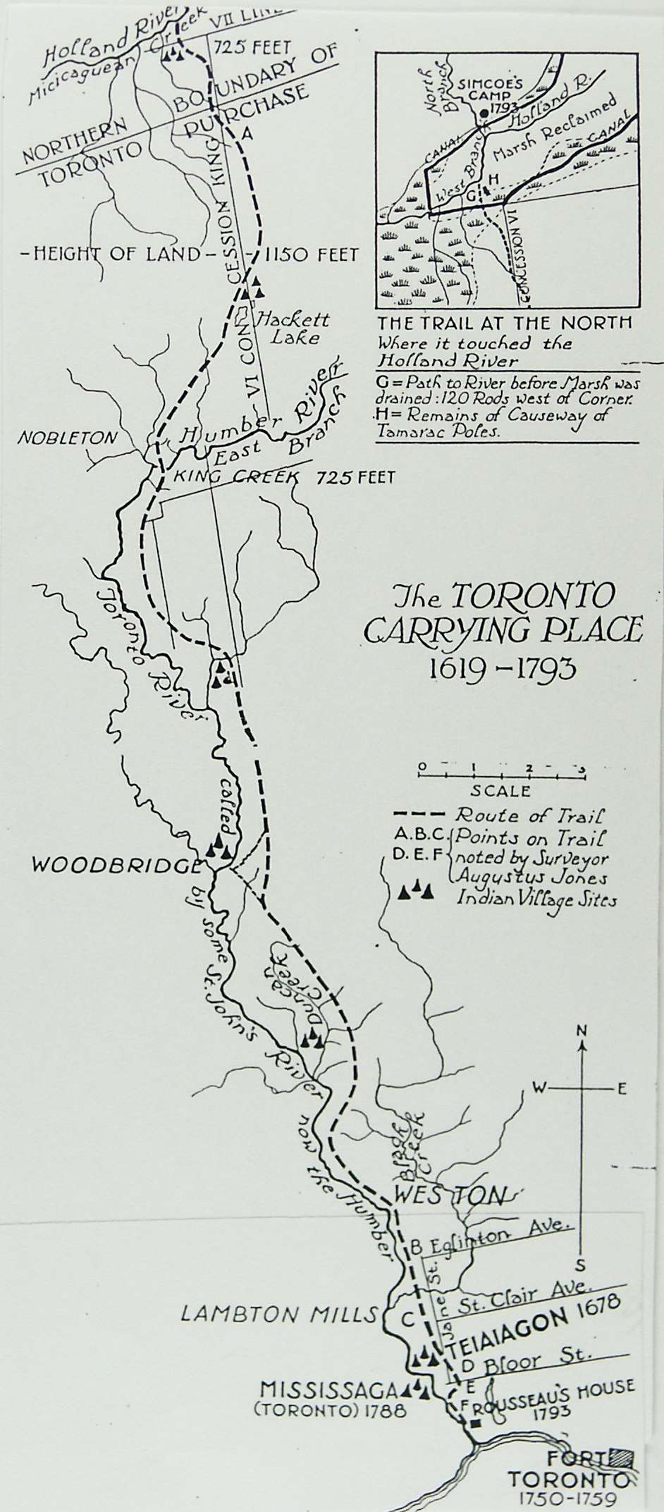 Original caption: "Map of the Toronto Carrying Place (1619-1793), which was the portage route from the Holland Marsh to Lake Ontario. The map is the work of C.W. Jeffreys, first published in Percy J. Robinson's "Toronto during the French Regime" (Ryerson Press: Toronto, 1933). The map includes the trail's route, the sites of Native Canadian villages, and a number of rivers."